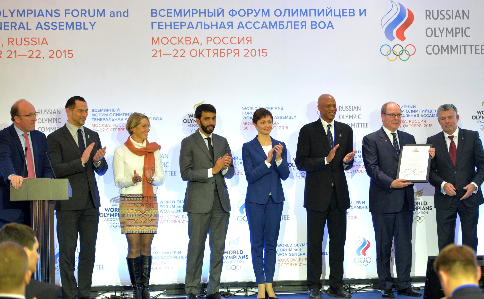 First World Olympians Forum held in Moscow in 2015. Photo session following the signing of the Declaration in Support of the Olympic Charter.